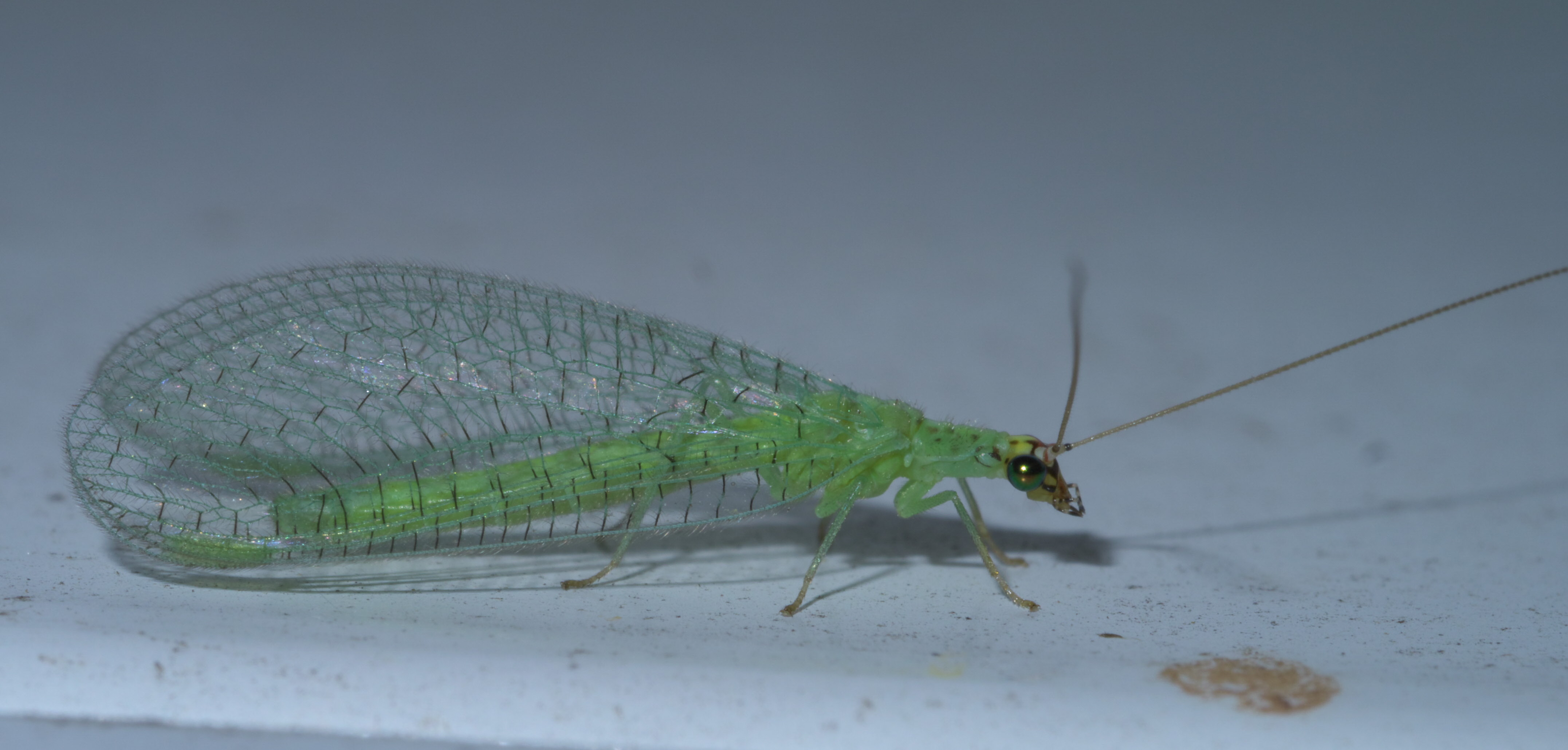 Chrysopa oculata, Golden-eyed Lacewing, ID Confidence: 87